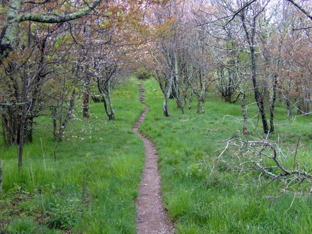 The Appalachian Trail traversing Spence Field in the Great Smoky Mountains. Once a highland pasture, Spence Field is being slowly reclaimed by trees, as it is not being maintained as a grassy bald by the Park Service.